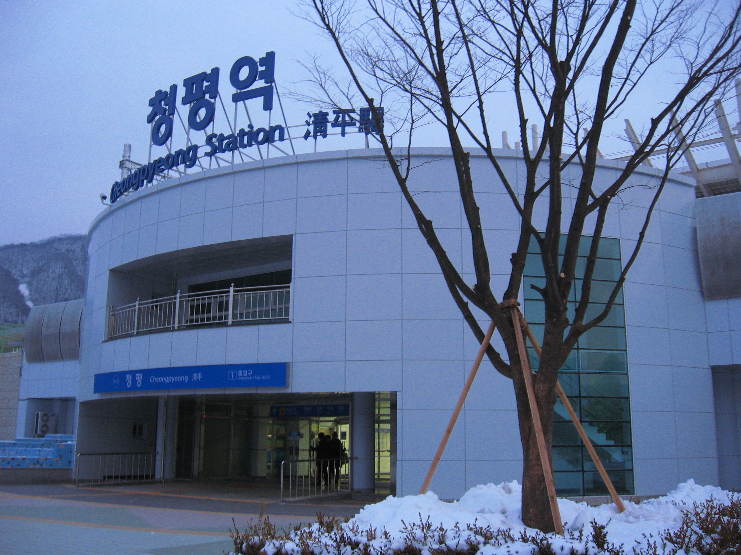 cheongpyeong station